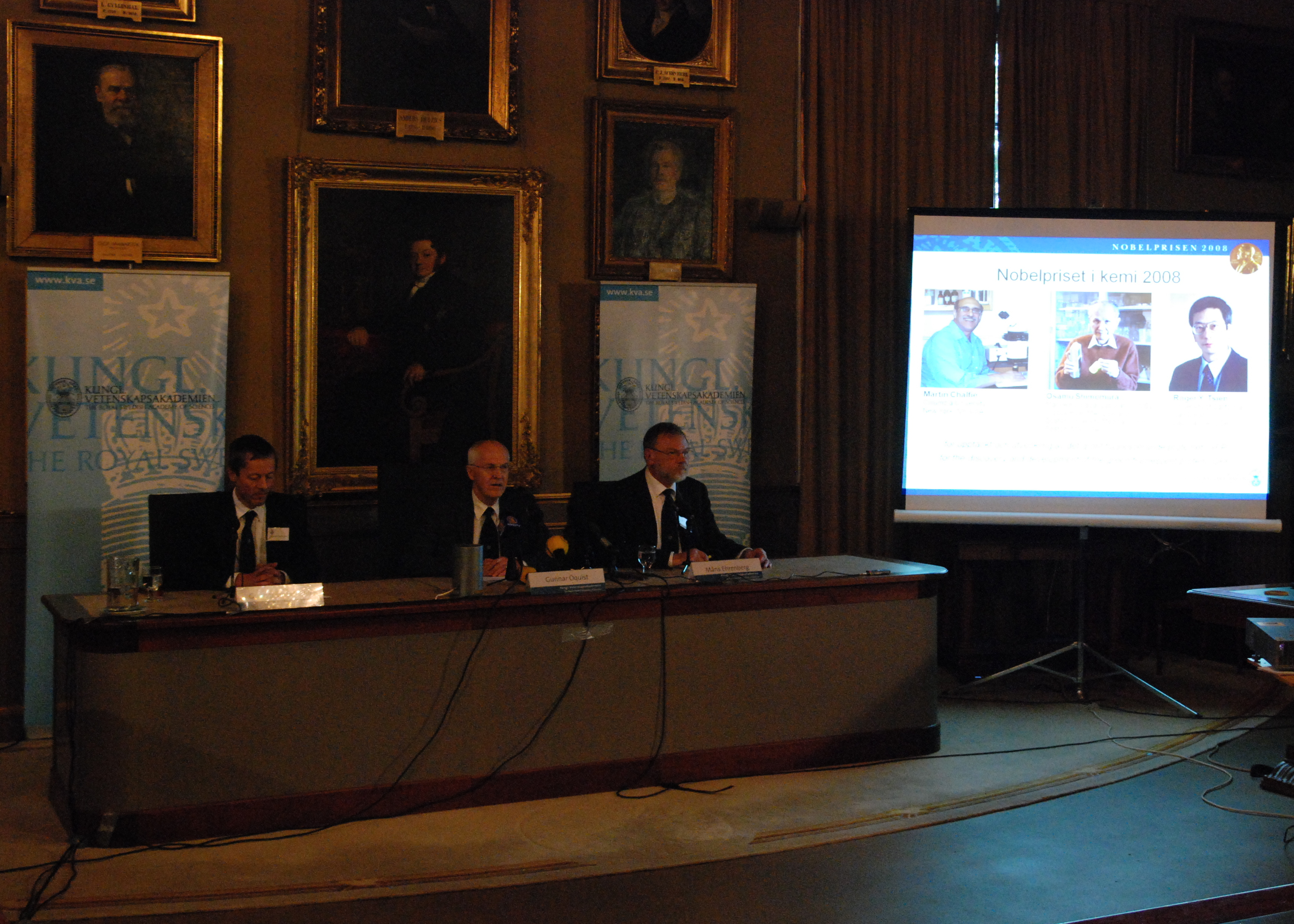 News Conference: Announcement of the Laureates of the Nobel Prize in Chemistry 2008 at the Session Hall of the Swedish Academy of Sciences; Professor Gunnar von Heijne, Chairman of the Nobel Comittee for Chemistry; Prof. Gunnar Öquist, Permanent Secretary of the Swedish Academy of Sciences; Prof. Måns Ehrenberg, Nobel Comittee for Chemistry